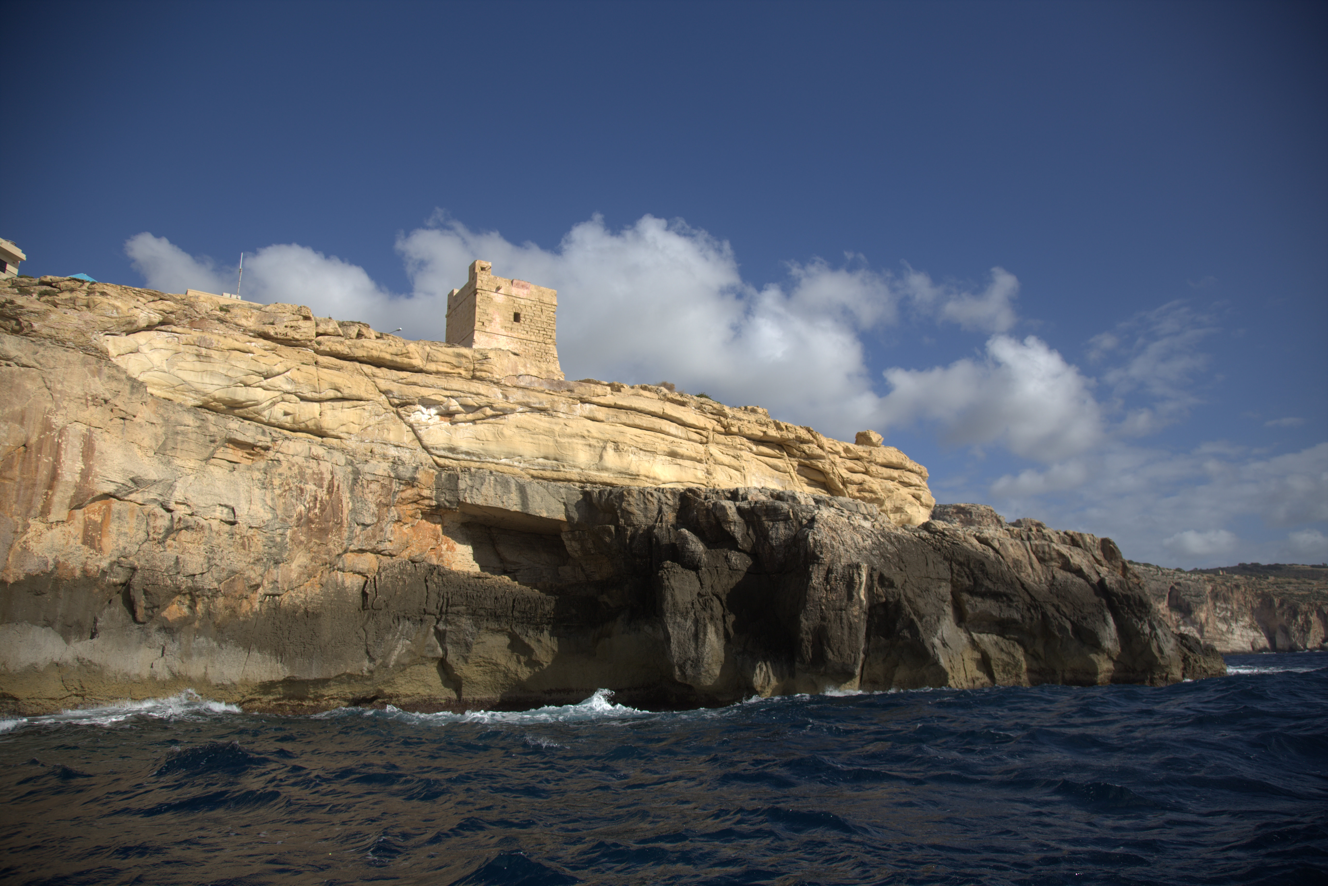 Torri Ta' Xutu seen from the tour boats.